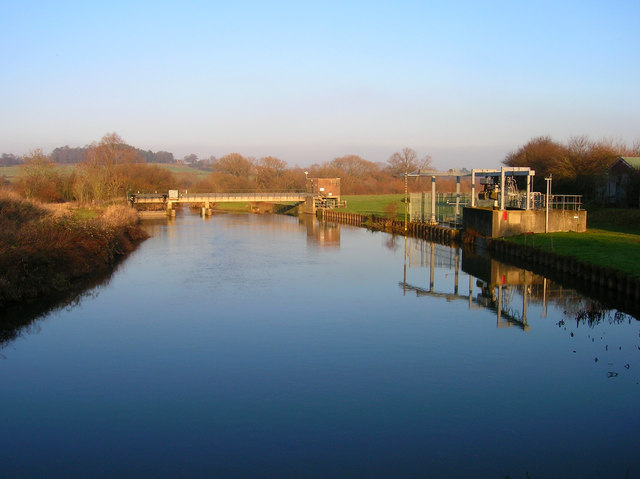 Pumping Station, River Rother Beyond the weir the Rother joins the Arun. There are two River Rothers in Sussex. This one is the western one whilst the eastern one joins the sea near Rye. Rother is actually Old English for river which means that in current usage the title of this waterway is the 'River River'.